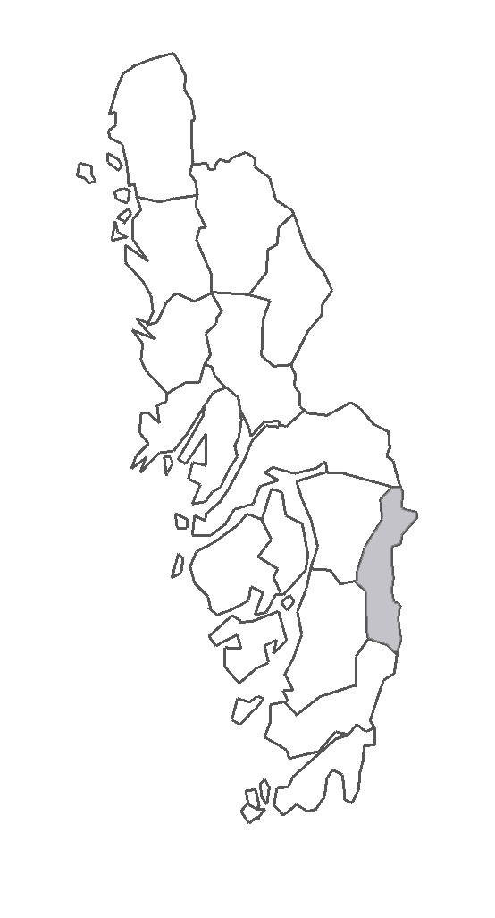 Map describing the location of Inland Torpe Hundred in Bohuslän Province, Sweden.